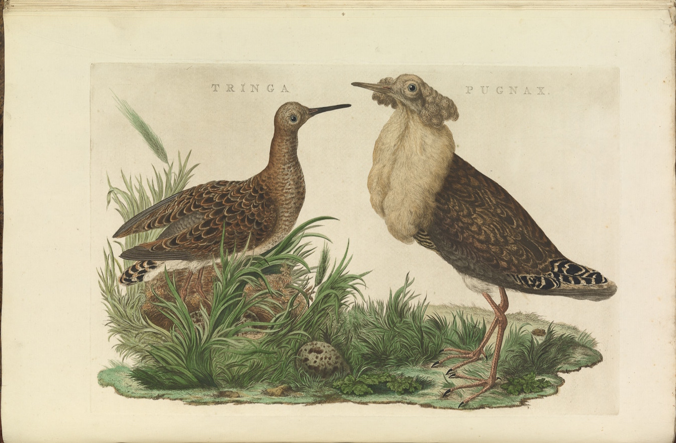 Plate 16 from the Nederlandsche vogelen by Nozeman and Sepp.